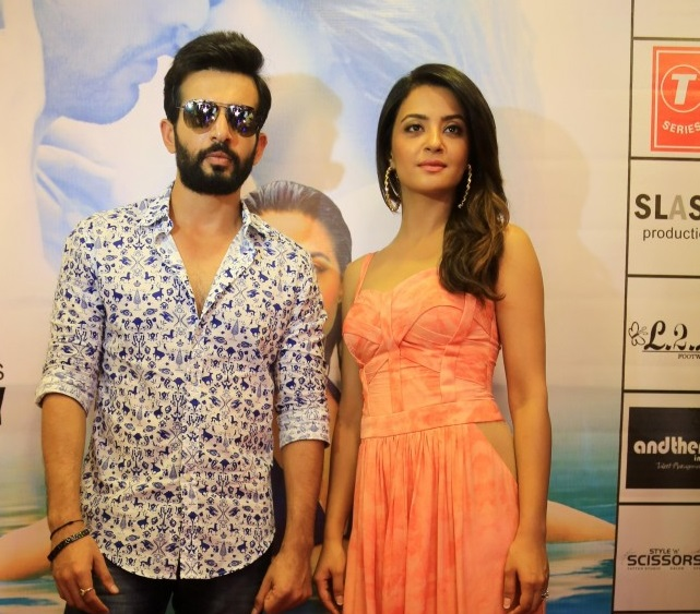 Promotion of 'Hate Story 2' in Jaipur